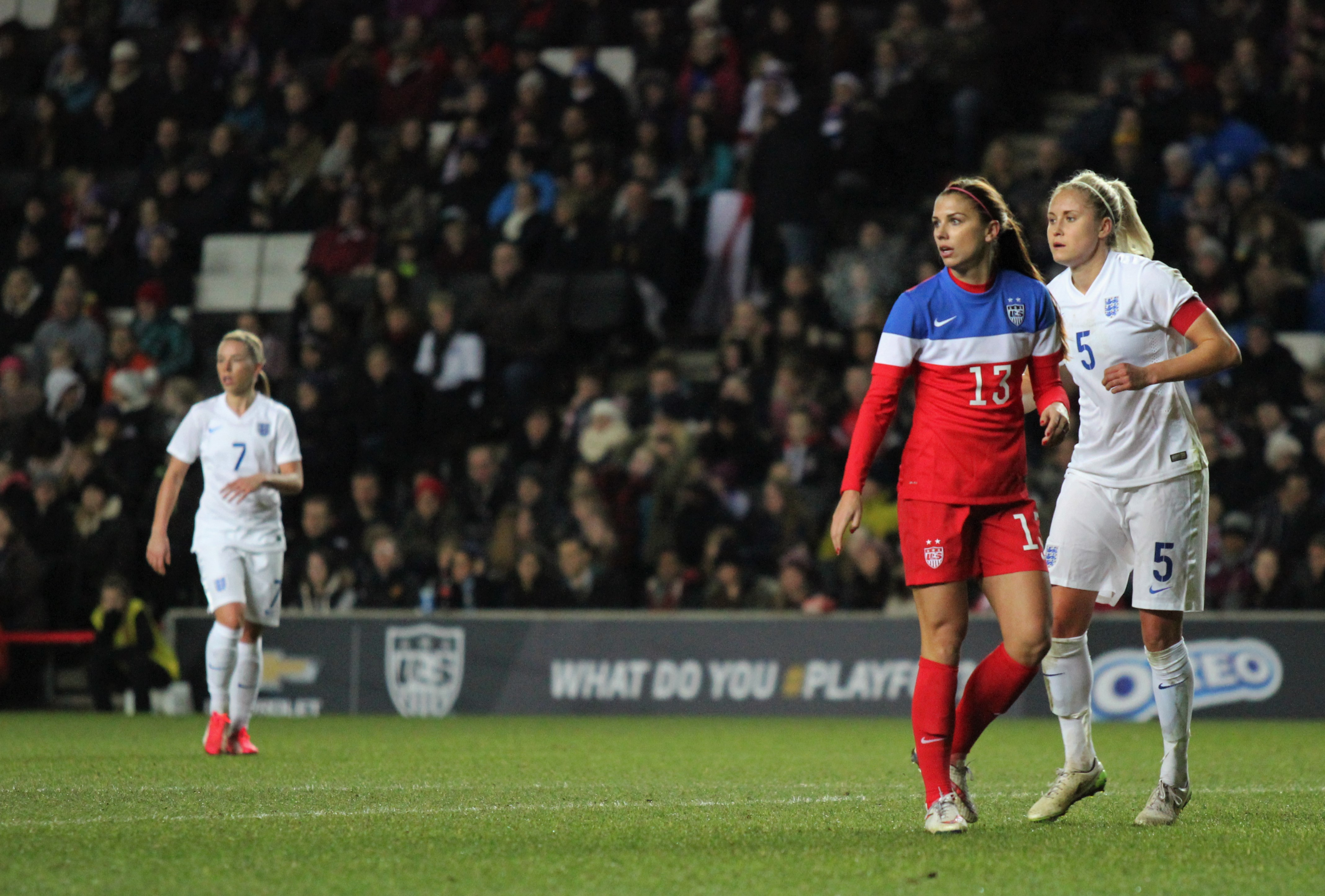 Alex Morgan of USA Women's and Steph Houghton of England Women's during the friendly game at StadiumMK.